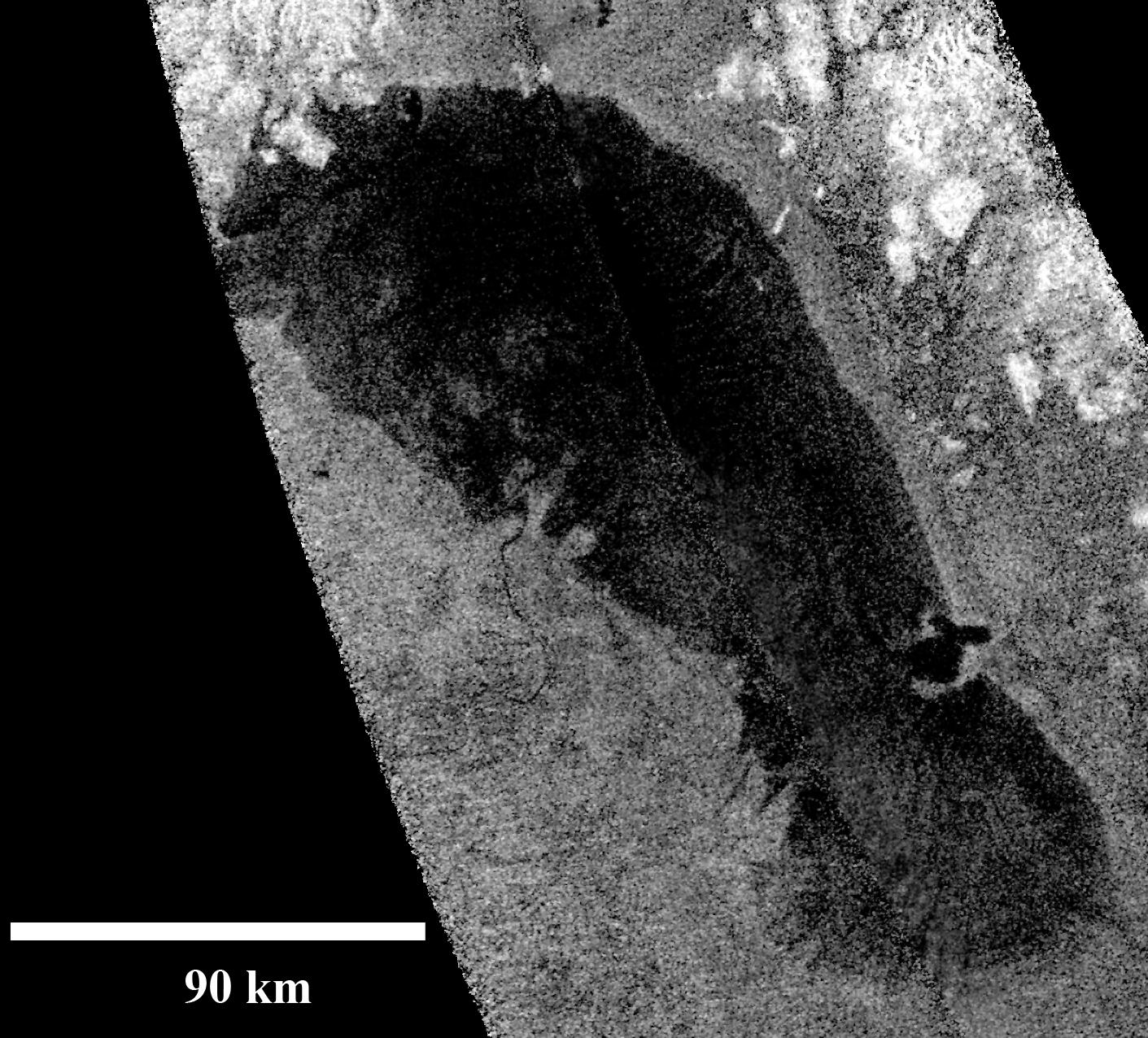 This RADAR-image of Ontario Lacus, the largest lake on the southern hemisphere of Saturn's moon Titan, was obtained by NASA's Cassini spacecraft on Jan. 12, 2010. North is up in this image. Objects appear bright in this radar image when they are tilted toward the spacecraft or have rough surfaces. The lake surface appears dark because it is smooth. The northern shoreline features flooded river valleys and hills as high as 1 kilometer (3,000 feet) in altitude. A smooth, wave-sculpted shoreline, like that seen on the southeastern side of Lake Michigan, can be seen at the northeastern part of the lake. Smooth lines parallel to the current shoreline could be formed by low waves over time, which were likely driven by winds sweeping in from the west or southwest. The southeast shore features a round-headed bay intruding into the shore. The liquid-filled depressions appear to be relatively recent. The middle part of the western shoreline shows the first well-developed delta observed on Titan. The shape of the delta shows that liquid flowing down from a higher plain has switched channels on its way into the lake, forming at least two lobes. Examples of this kind of channel switching and wave-modified deltas can be found on Earth at the southern end of Lake Albert between Uganda and the Democratic Republic of Congo in Africa and the remains of an ancient lake known as Megachad in the African country Chad.